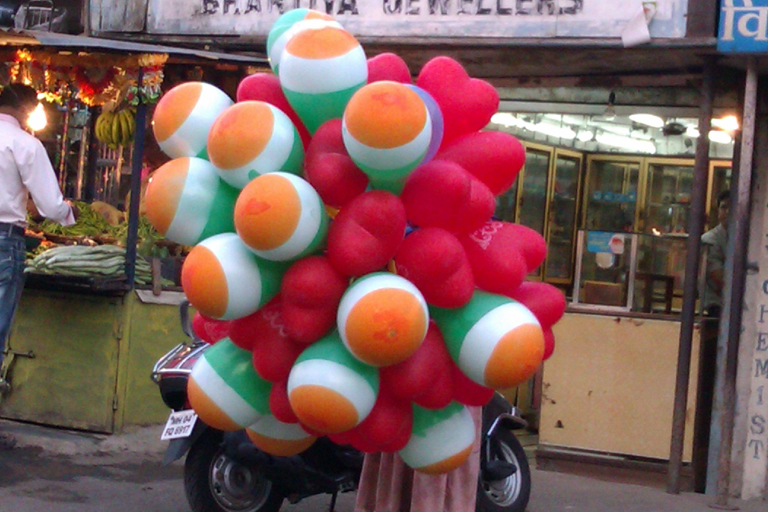 Balloons in the Indian Tricolour are popular with kids on Republic and Independence days in India. The image has a seller (behind the balloons) with the tricolour and red-heart balloons.